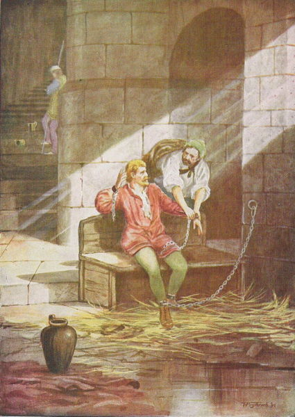 Illustration of Gruffydd ap Cynan, Prince of Gwynedd. The caption in Welsh is "Gruffudd ap Cynan yng ngharchar Hugh d'Avranches yng Nghaer", which translates to "Gruffydd ap Cynan escaping from Hugh d'Avranches, the Earl of Chester".